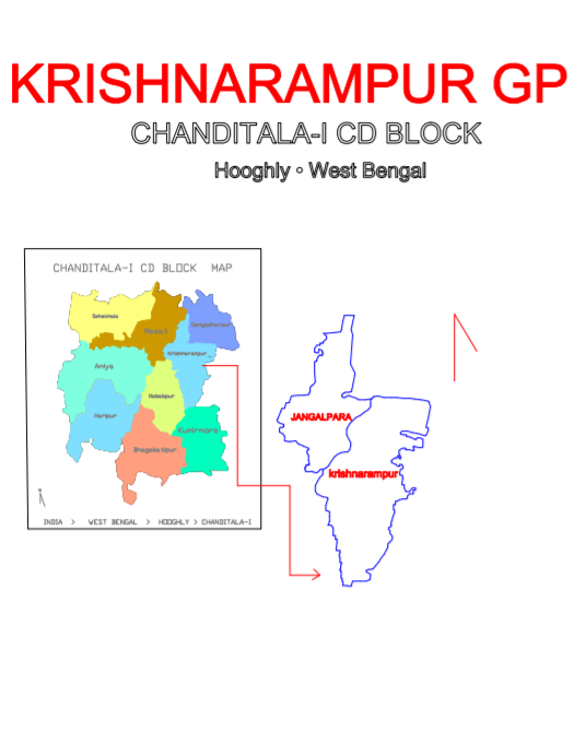 Map of KRISHNARAMPUR GP , CHANDITALA-I CD BLOCK